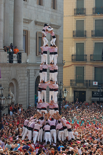 Human castle